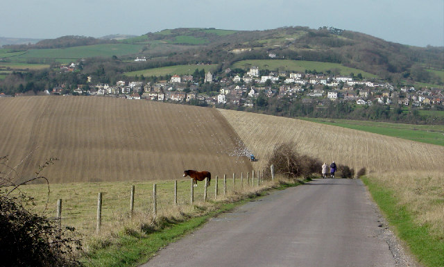 View from Bembridge Down towards Brading. This view looks west along the ridge of chalk hills that run east - west across the middle of the Isle of Wight. The ridge is dissected in several places by valleys. In this picture there is a dry valley in the middle foreground. The land drops again, cut by the River Yar, behind the ploughed field. It rises again to Yarbridge, centre distance, regaining 100m plus on Brading Down, (skyline, centre left).